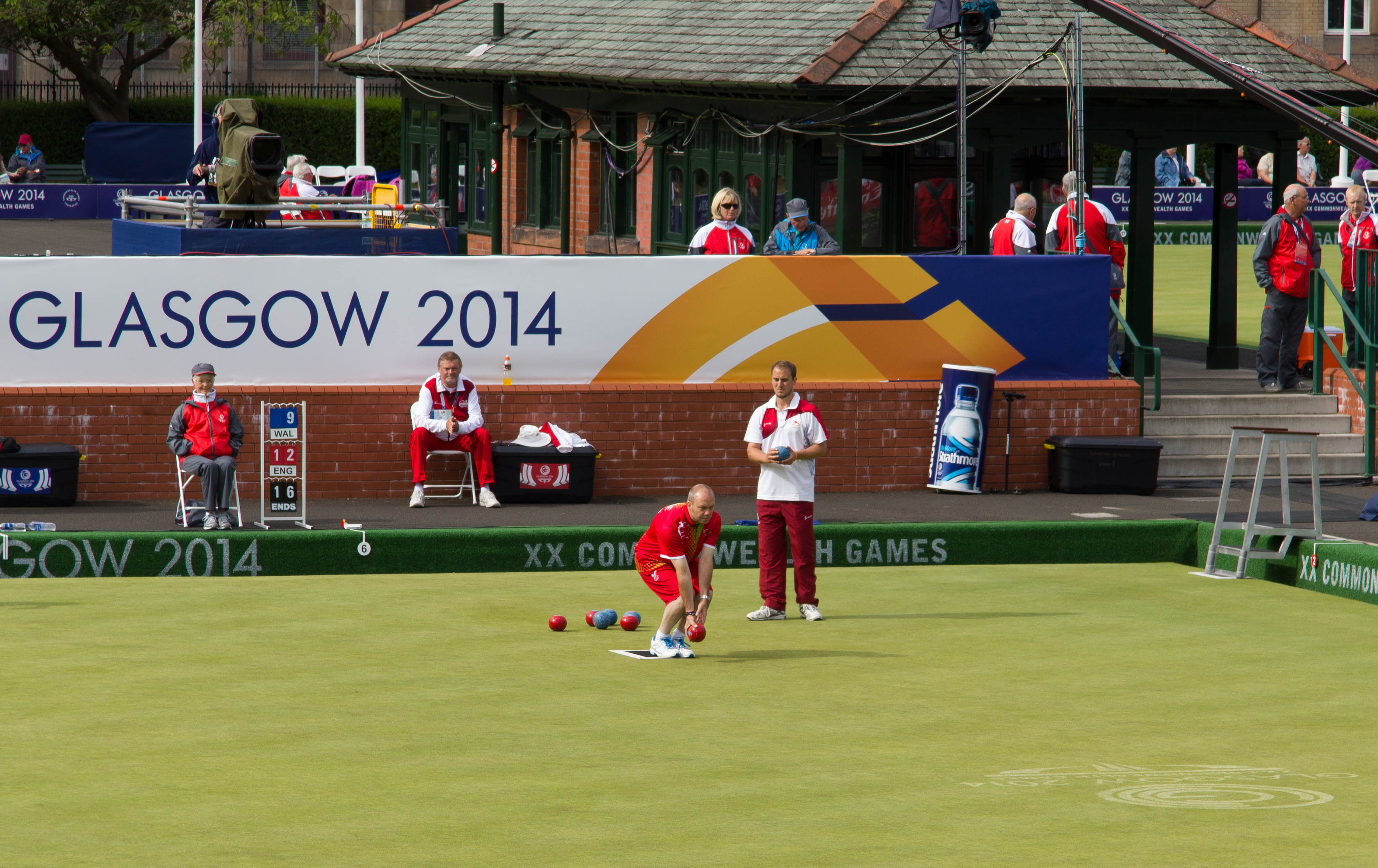 Lawn bowls at the 2014 Commonwealth Games